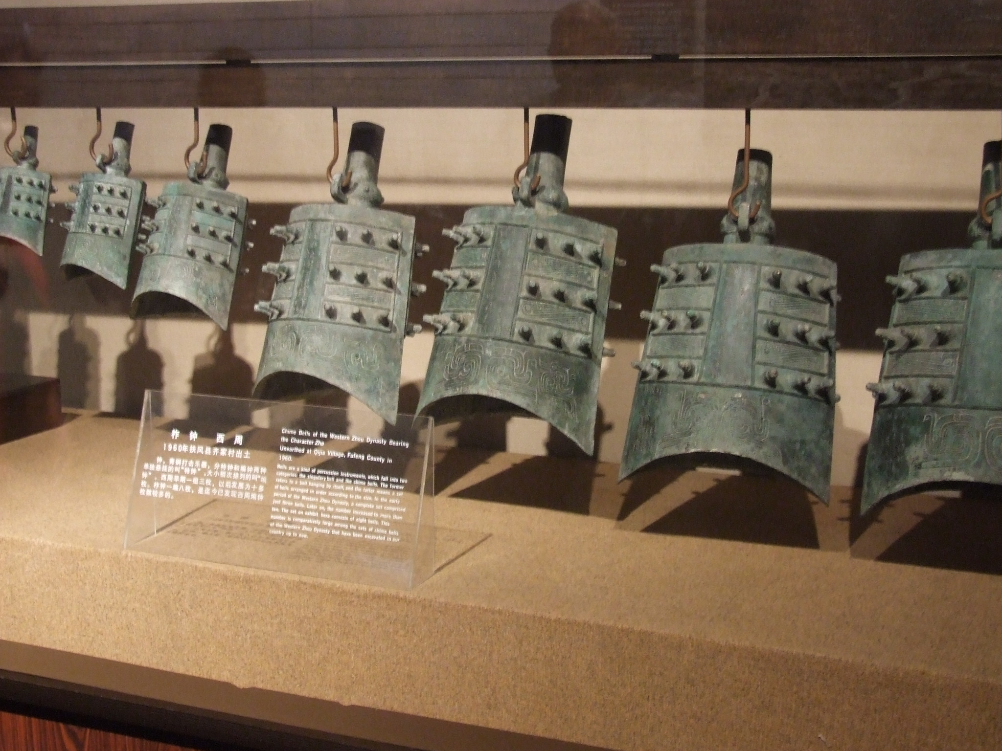 The Shaanxi History Museum in Xi'an